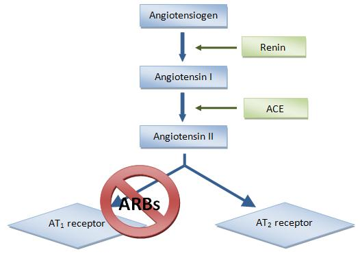 Renin angiotensin pathway or RAAS.